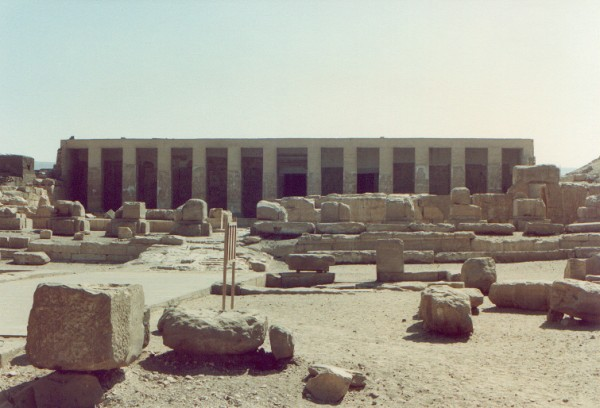 self made (Temple of Seti I in Abydos, Egypt, taken in 1990)